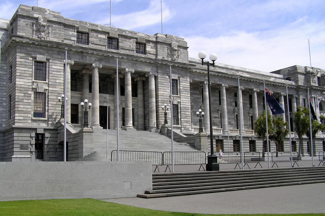 The design was intended to be balanced with a matching western wing . This space now occupied by the 'Beehive'